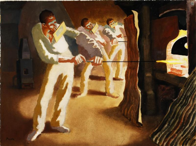 Three men in white suits, with face masks, each holding a long pole thru a hatch into a glassblowing furnace.